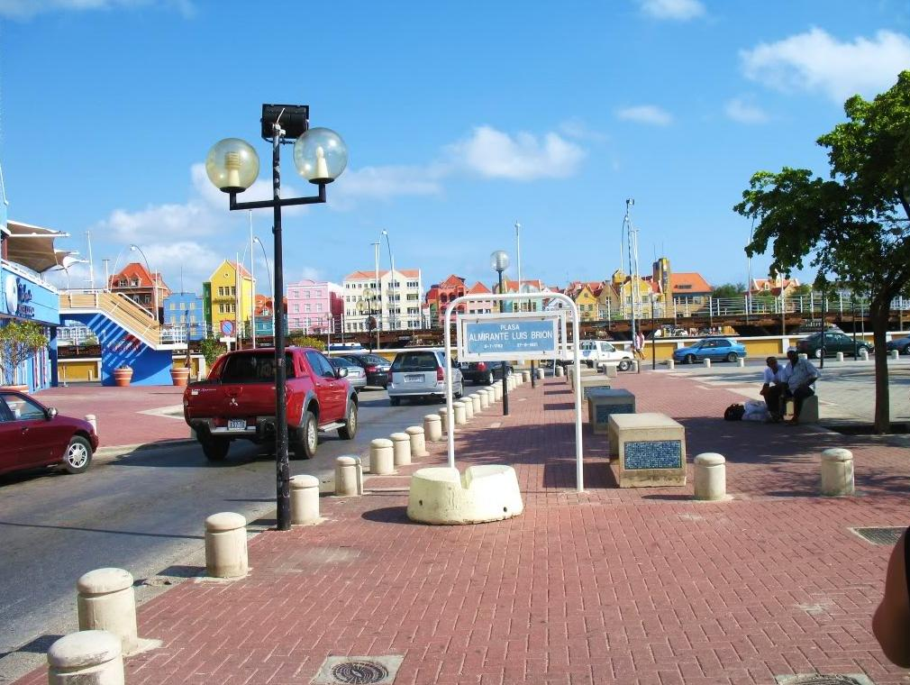 Luis Brion Square, Willemstad, Curacao